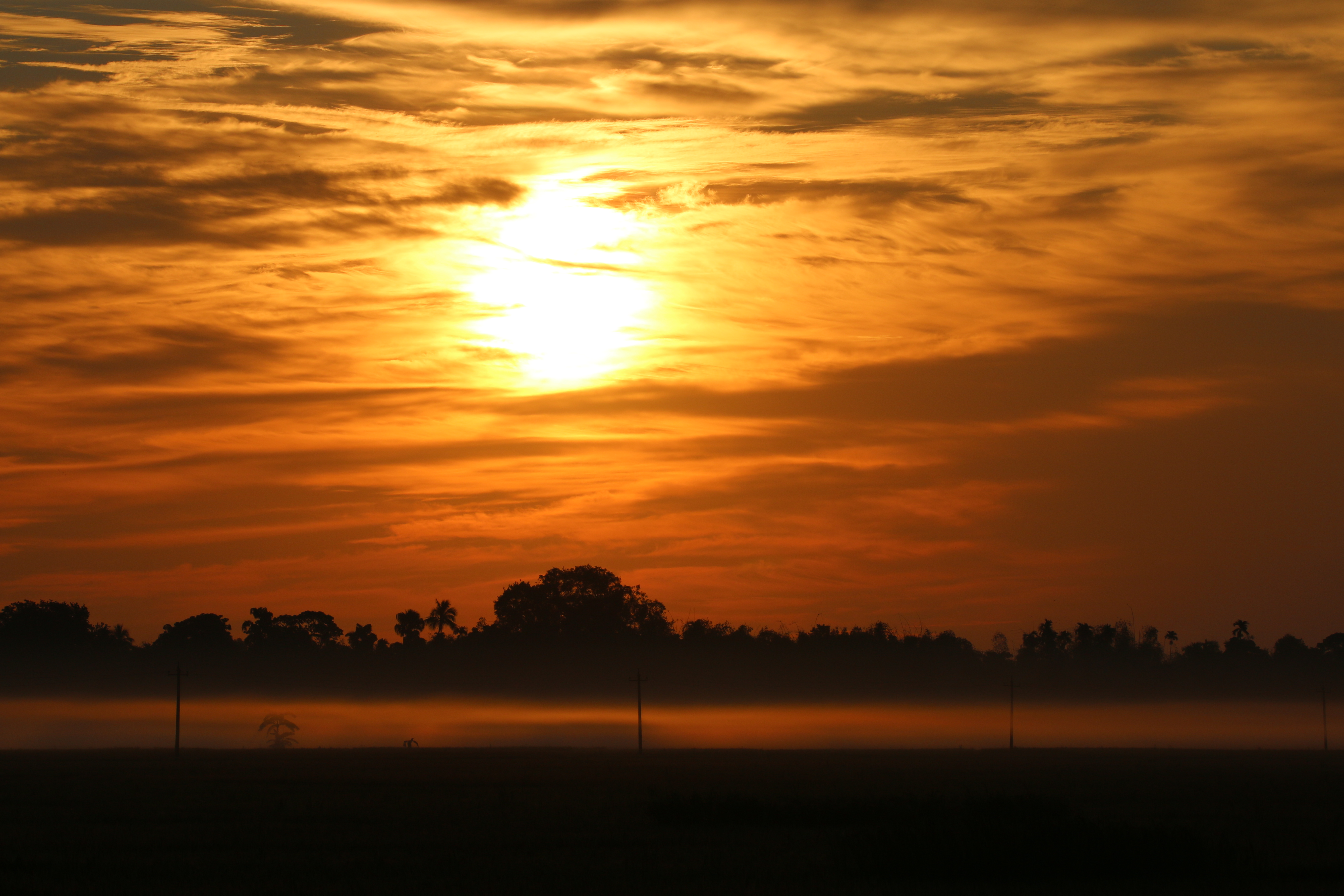 Sunrise from Garumara National Park, North Bengal, India